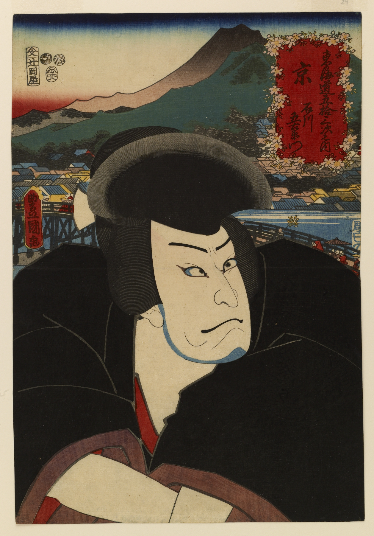 The actor Nakamura Utaemon IV in the role of Ichikawa Goemon. The outlaw Goemon escapes after committing numerous crimes and continues to pursue the life of a brigand. However, he is captured and sentenced by the general Hisayoshi to public execution by being cast into a cauldron of boiling oil in Kyōto.